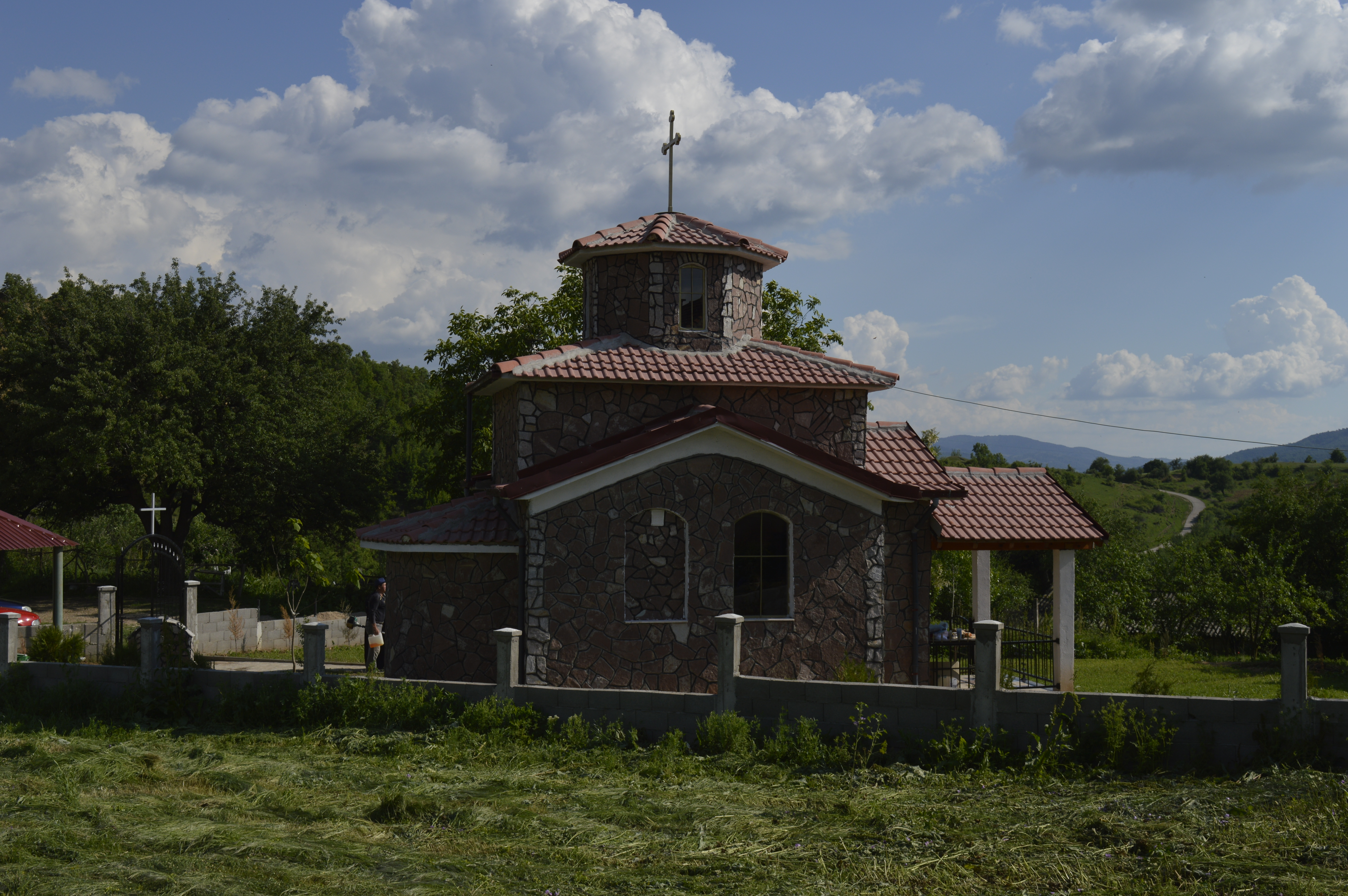 View of the Jeremiah the Prophet Church in the village Stamer